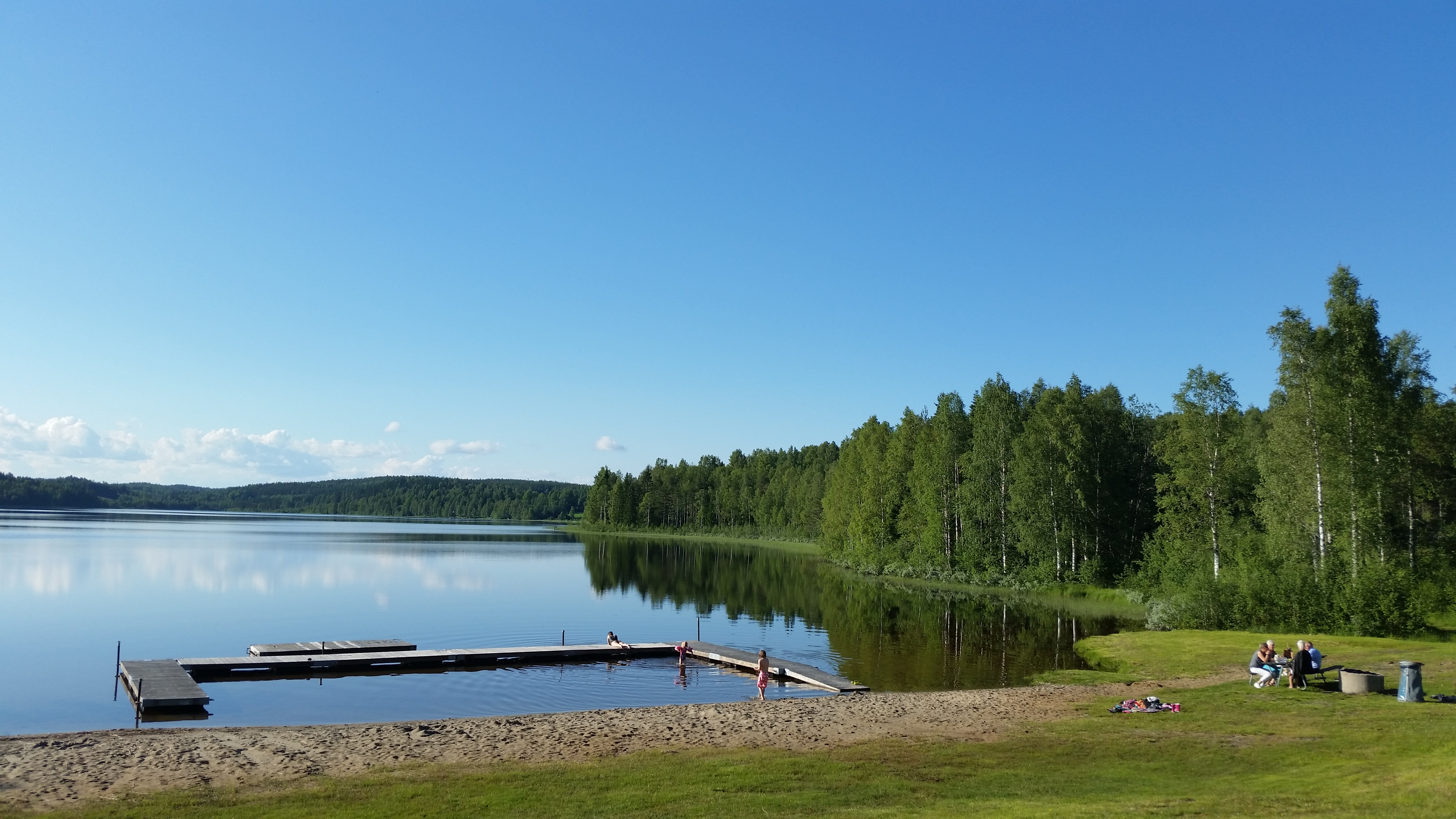 Hjåggsjö bathing site